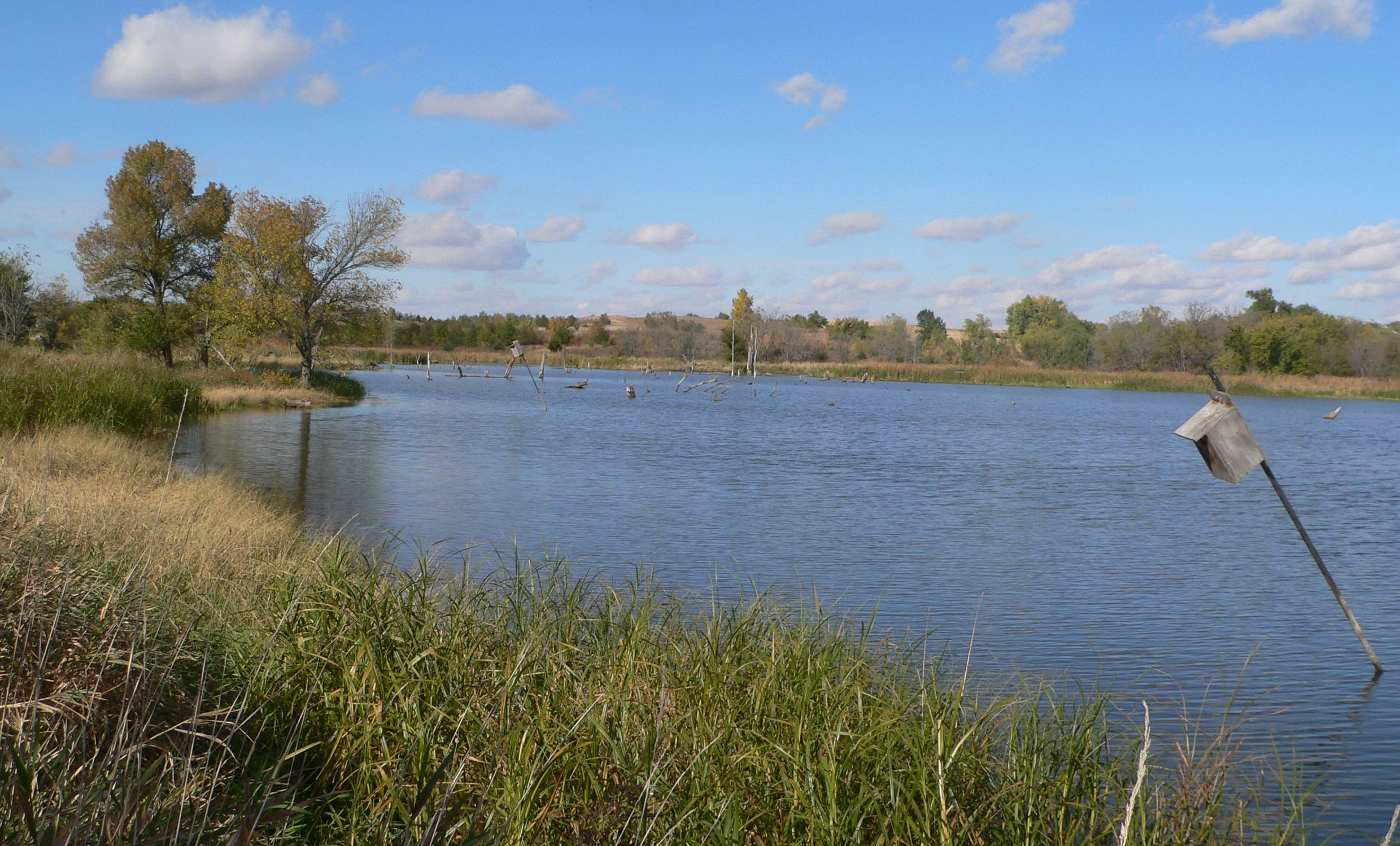 Czechland Lake, located near Prague in rural Saunders County, Nebraska: upper end, seen from southwest bank.